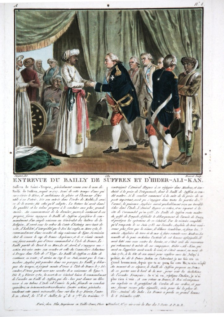 French admiral Suffren meets with Haidar Ali Khan of Mysore, 1782